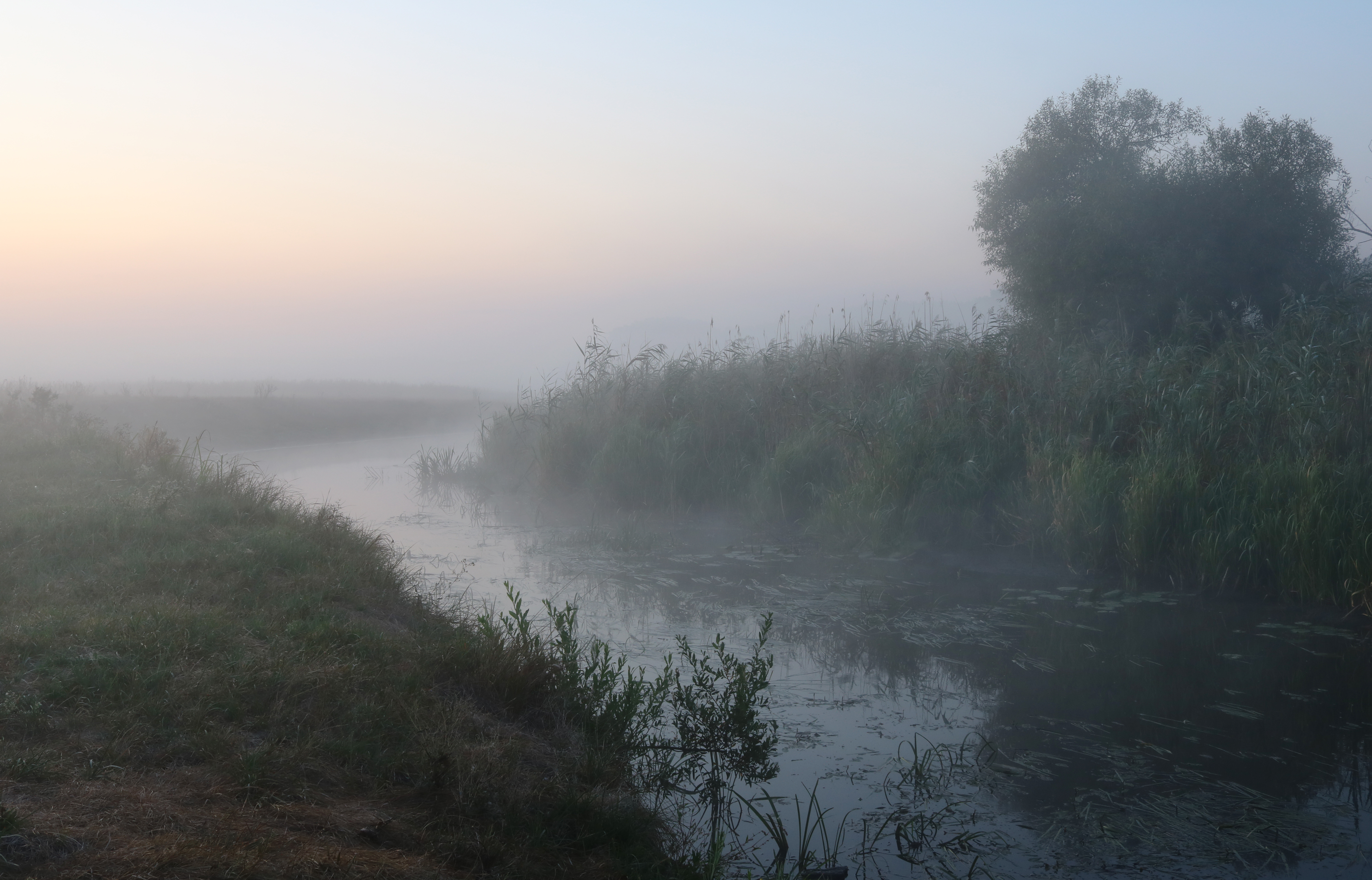 Desna river, feeder of the Southern Bug, at meadow. Ukraine, Vinnytsia Raion